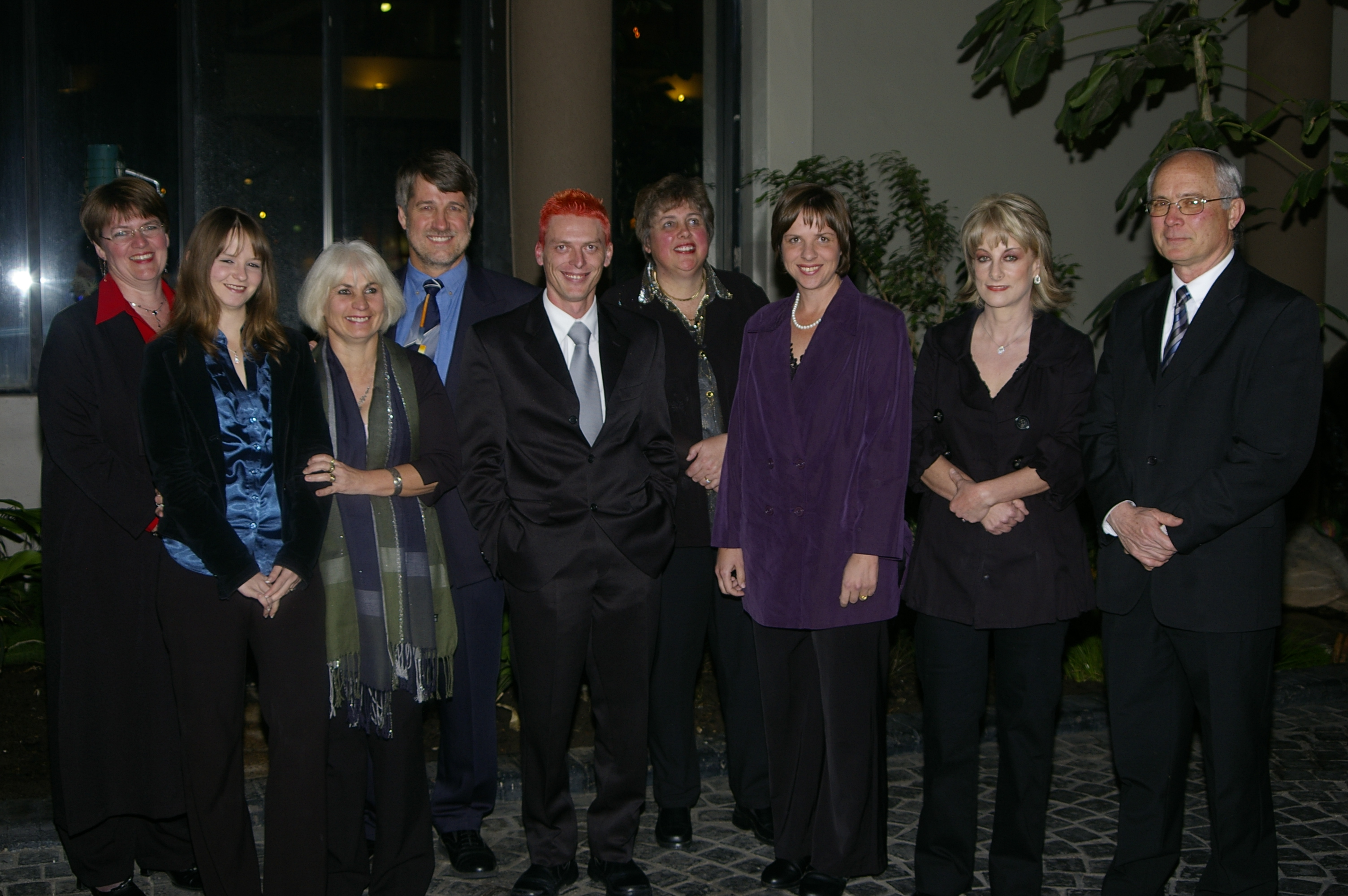 False Bay High School, Faculty 2005